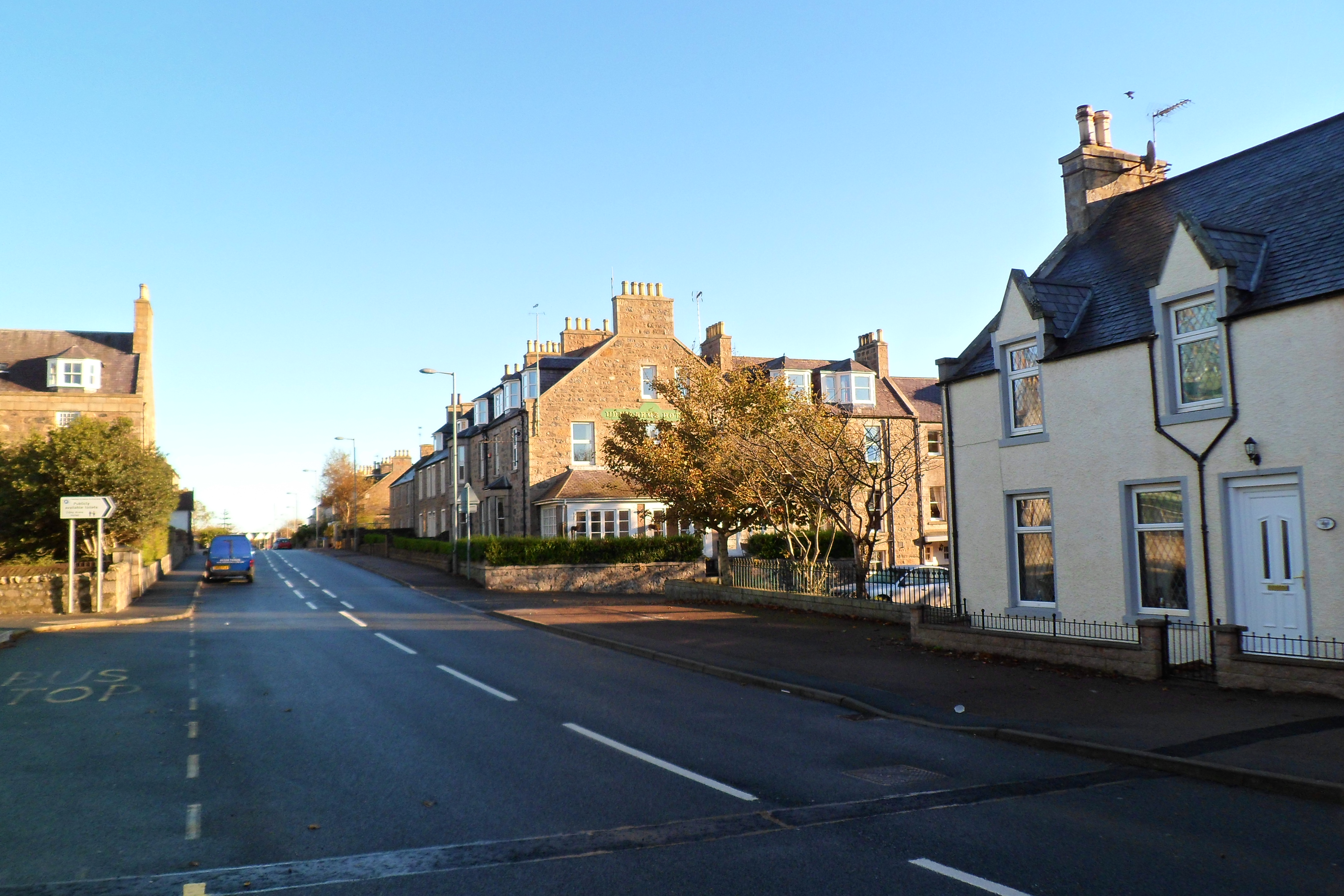 Main Road in Newburgh (Aberdeenshire, Scotland) with viewe on Udny Arms Hotel